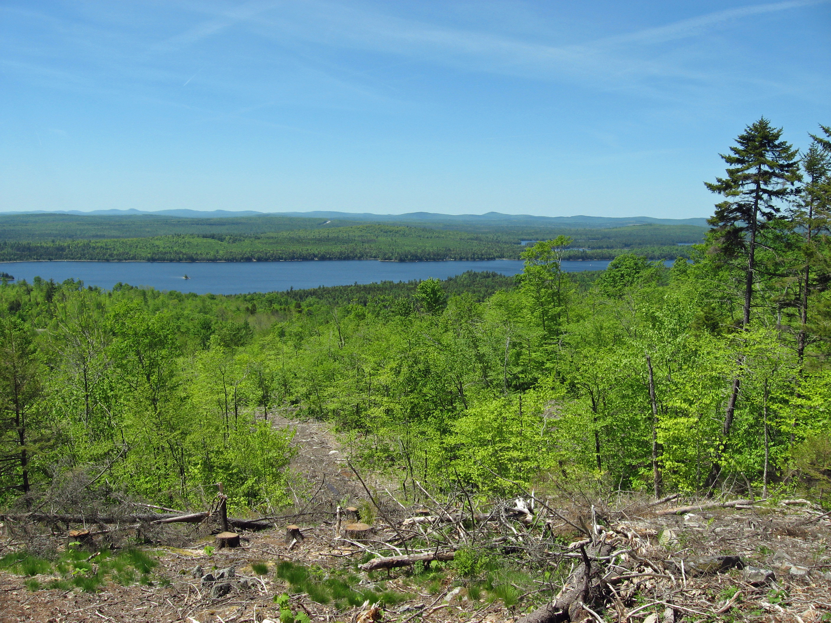 Upper Lead Mountain Pond in eastern Maine